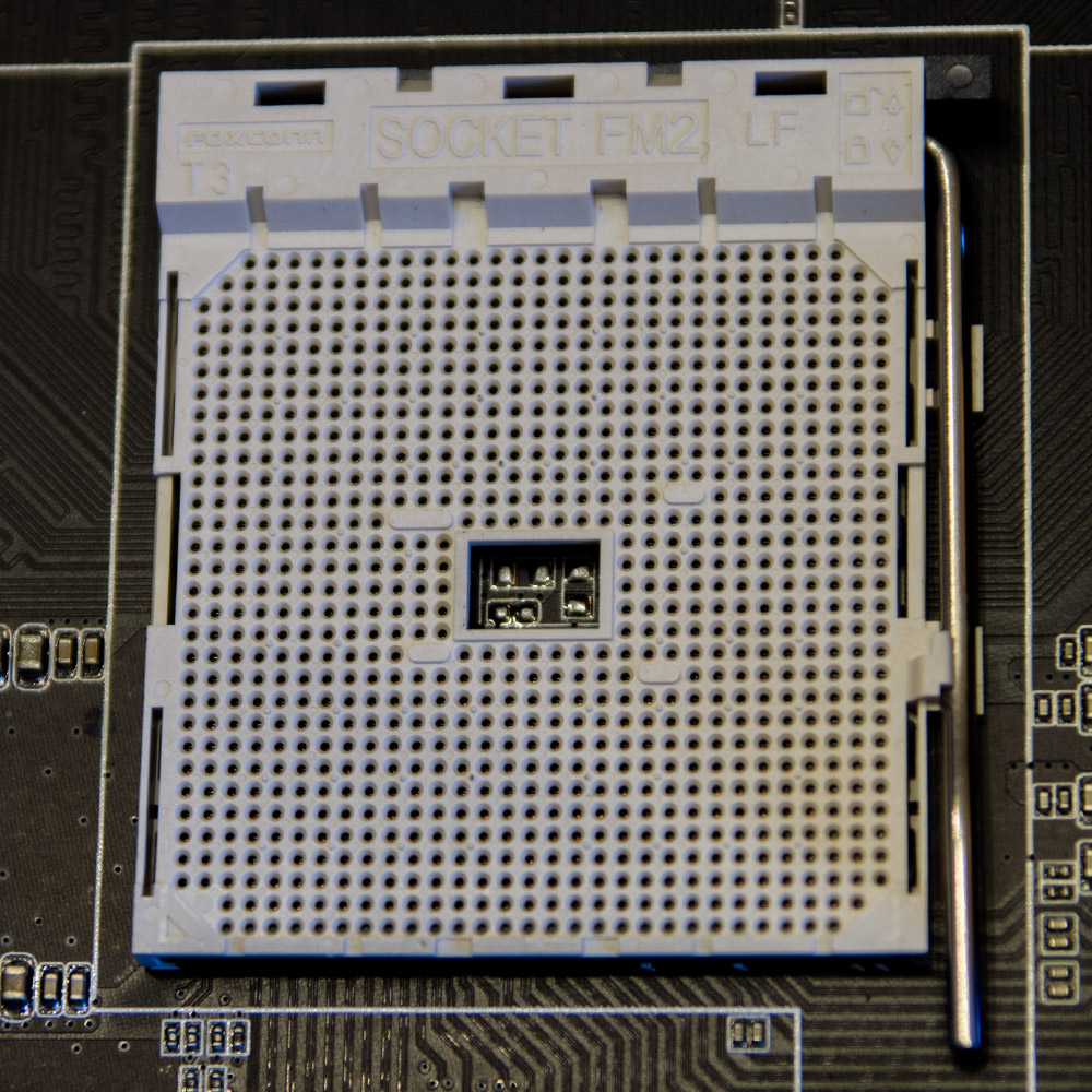 Picture of the Socket FM2 of a Gigabyte GA-F2A85X-UP4